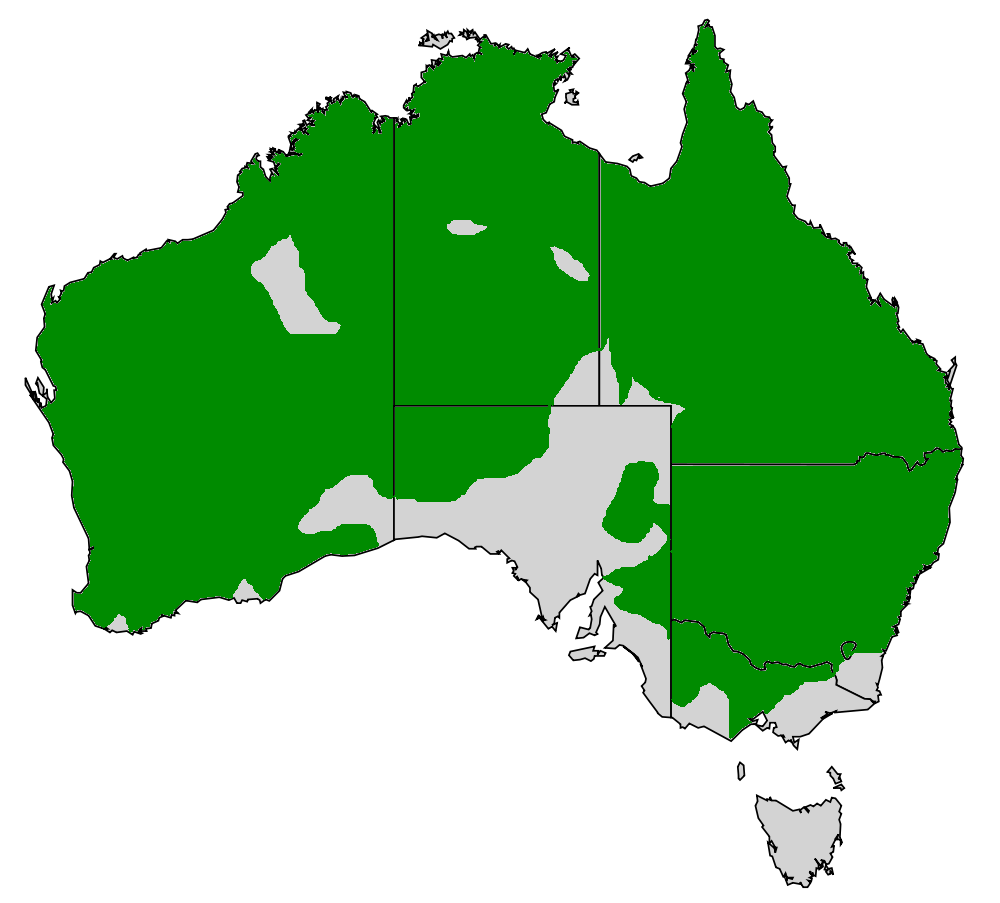 Range of pied butcherbird. Data taken from Higgins, Peter Jeffrey , ed. (2006) Handbook of Australian, New Zealand and Antarctic Birds. Vol. 7: Boatbill to Starlings, Melbourne: Oxford University Press, p. 518 ISBN: 978-0-19-553996-7. . Base map of Australia was File:Australia map, States.svg